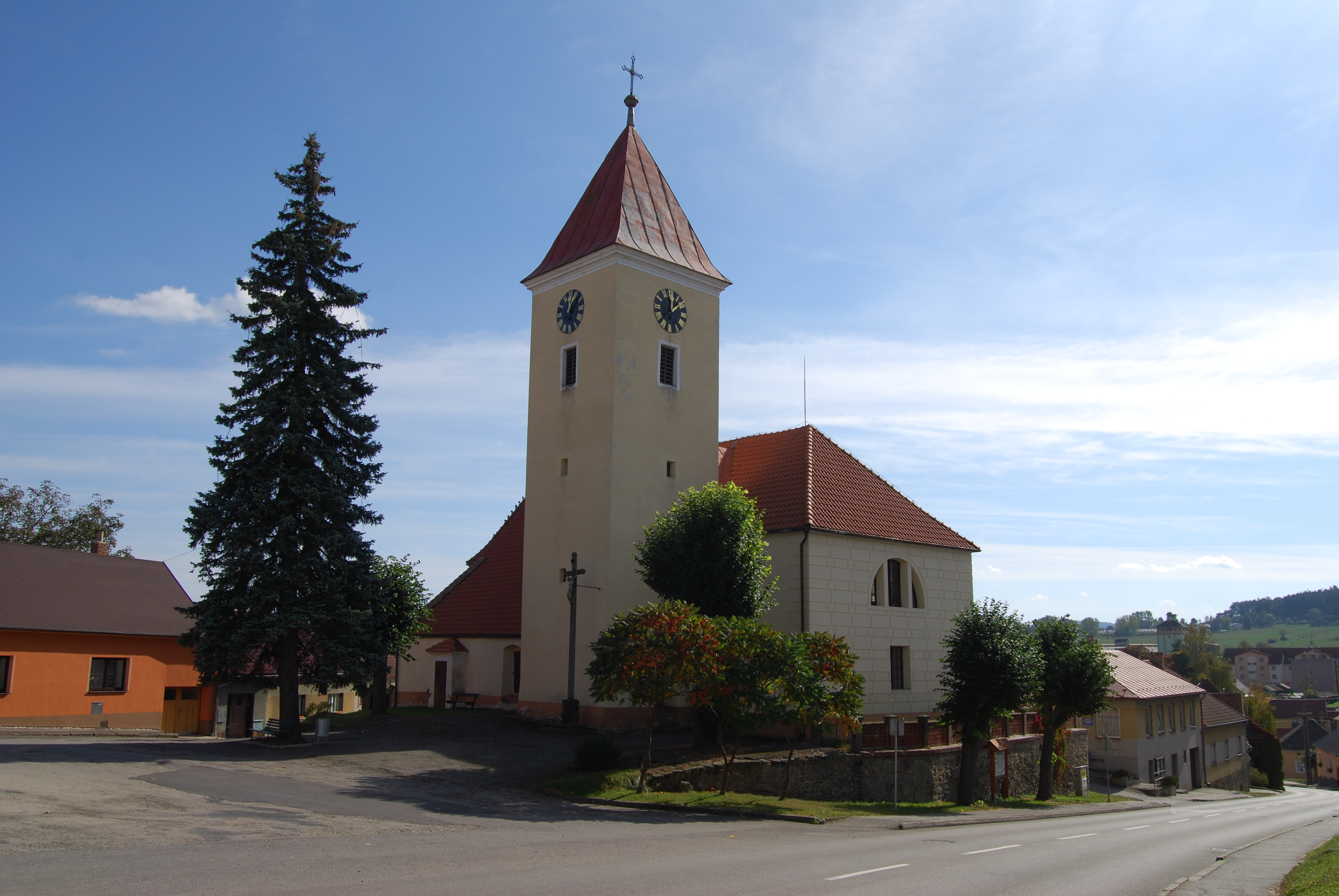 Strunkovice nad Blanicí in Prachatice District, Czech Republic. Church of saint Dominik